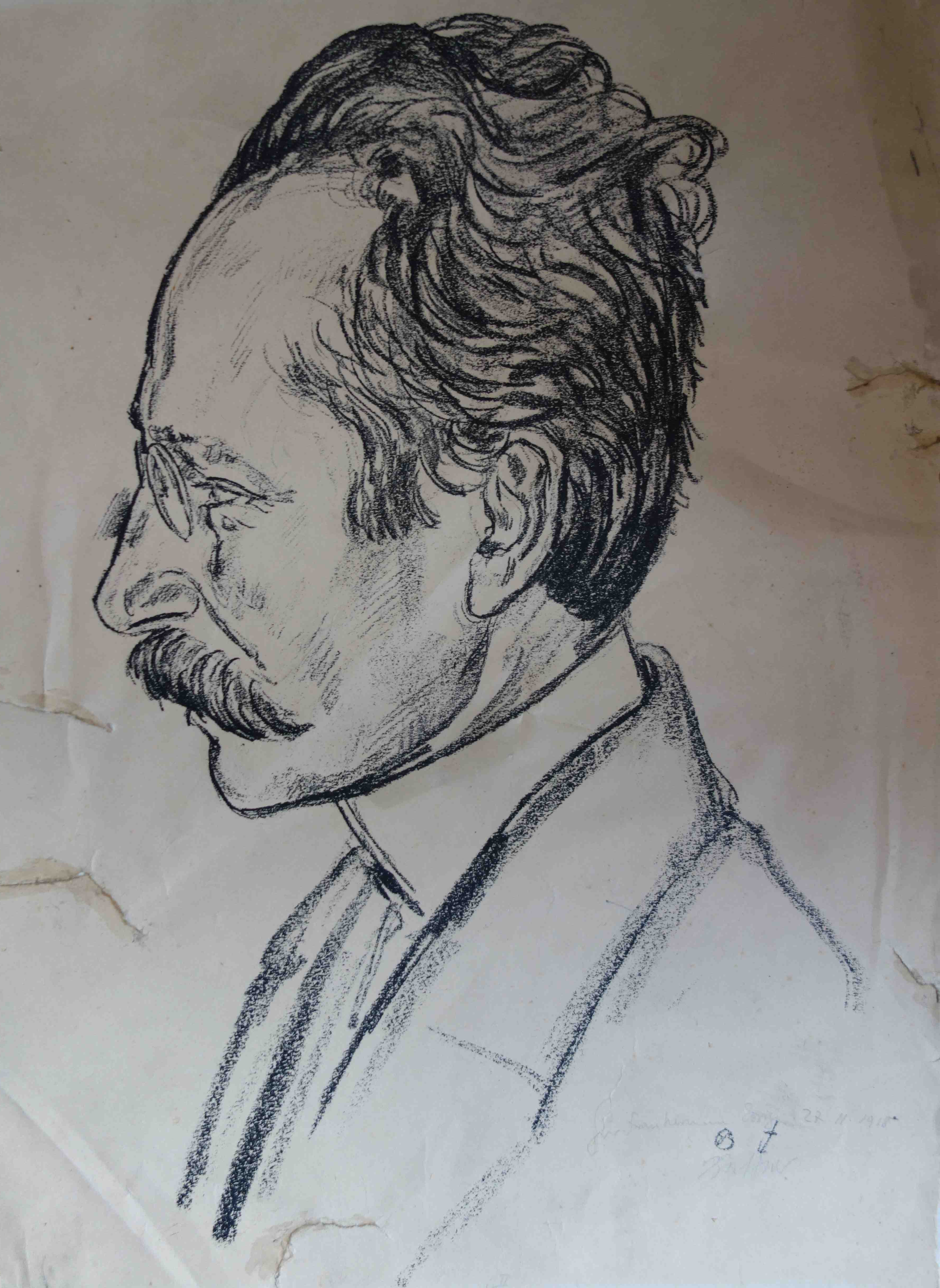 Hermann Essig, German author, ca. 1917, charcoal drawing by Erich Büttner (1889-1936)